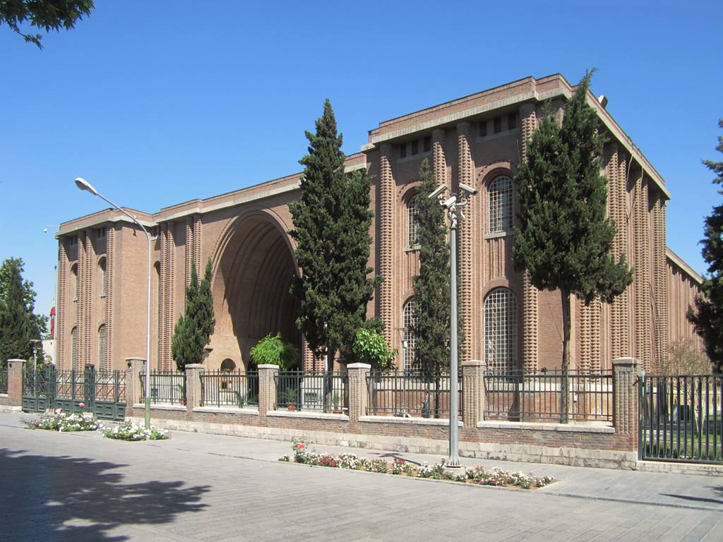 The Building of National Museum of Iran